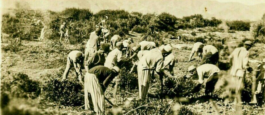 Cheshme belghais(belghais garden) in 1945.